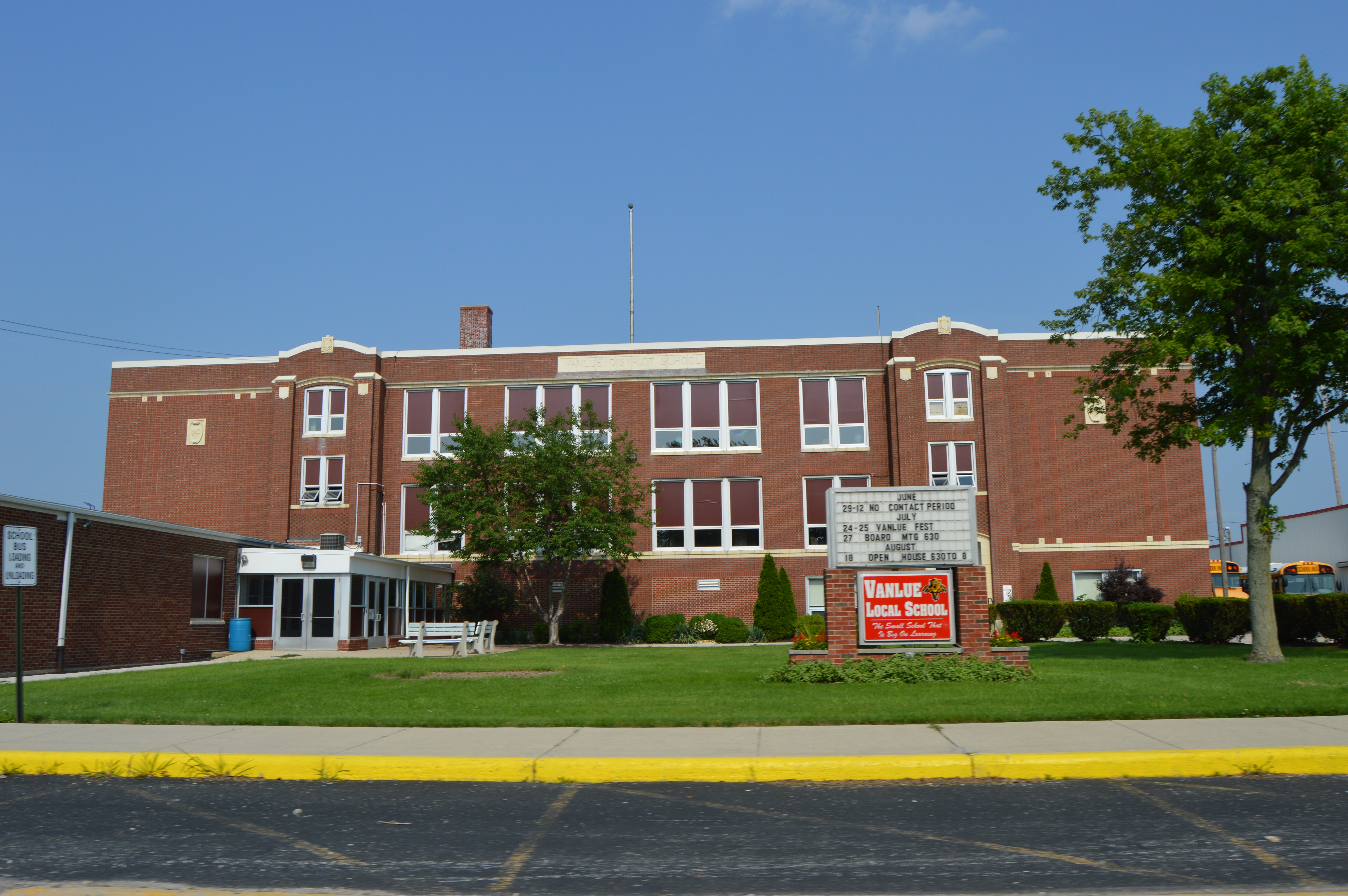 Front of Vanlue High School, located at 301 S. East Street (State Route 330) in Vanlue, Ohio, United States.